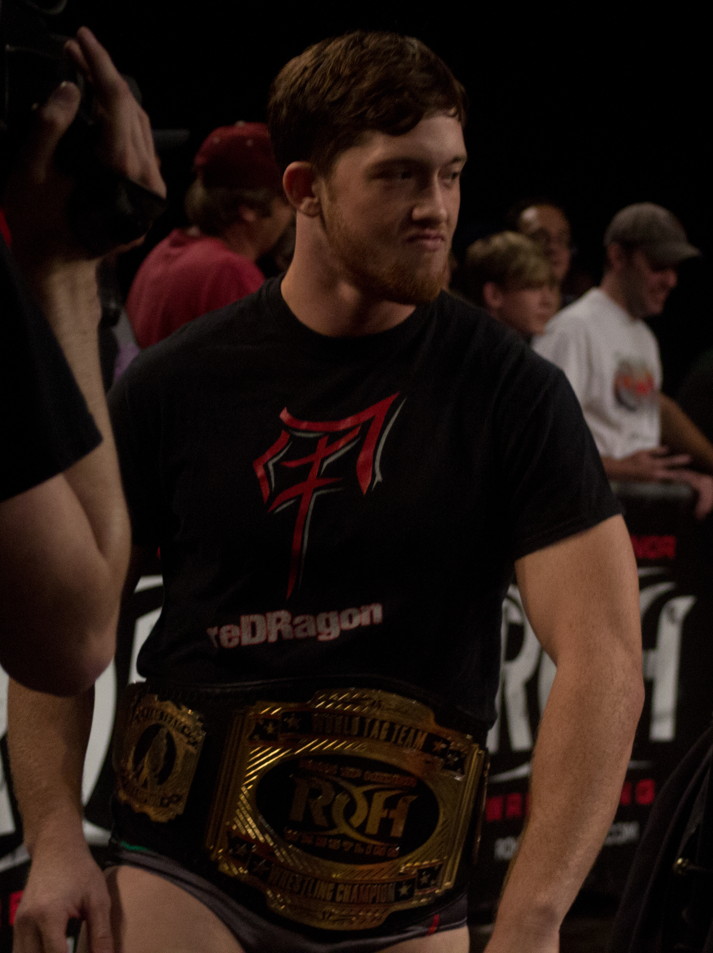 One-half of the ROH World Tag Team Champions, Kyle O'Reilly making his way to the ring in September 2013 at a Ring of Honor show. Cropped from original image.